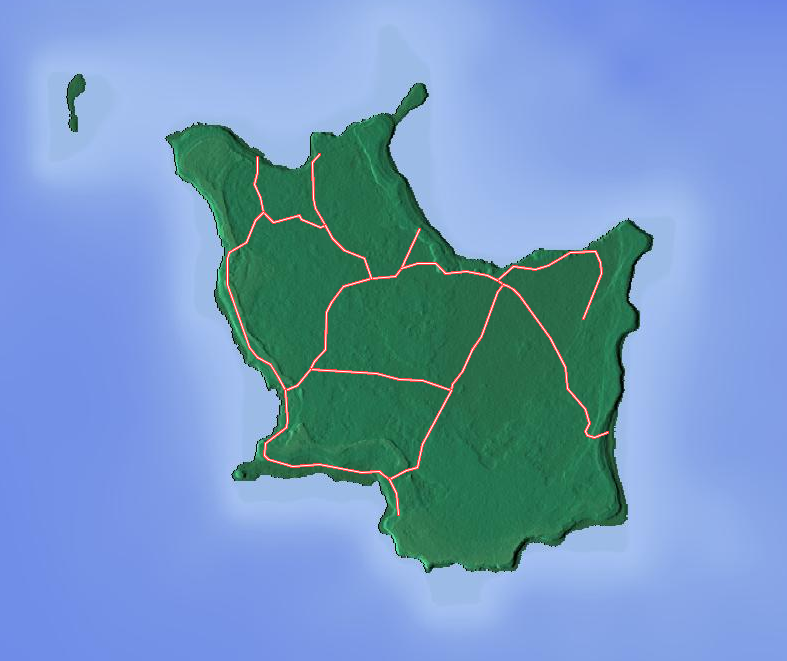 Map of Maré Island, New Caledonia Geographic limits of the map: N: -21.294° S: -21.717° W: 167.686° E: 168.226°